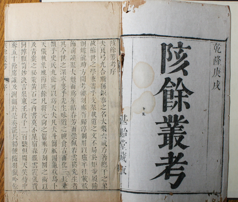 History Studies by Zhao Yi in 1772